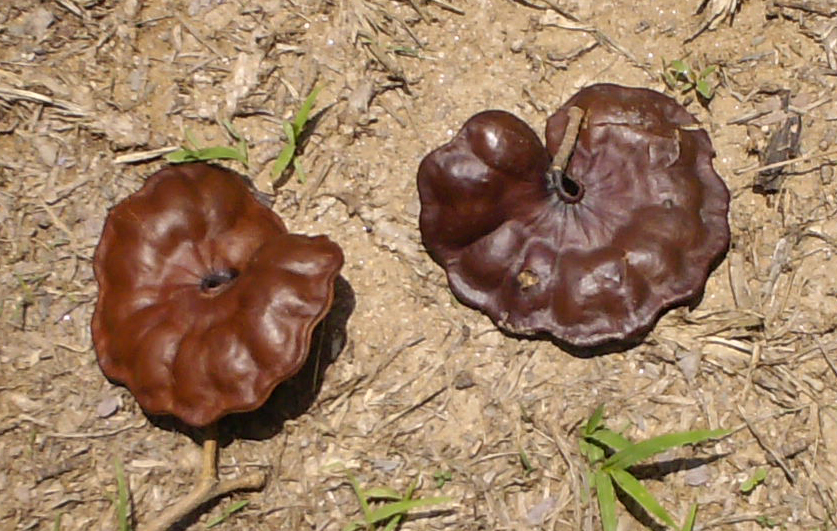 Enterolobium cyclocarpum fruits